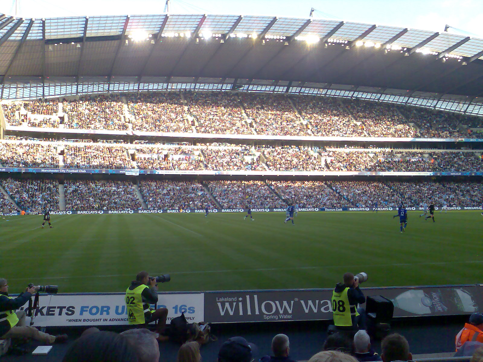 Taken on the 20th of October, Man City 1-0 Birmingham